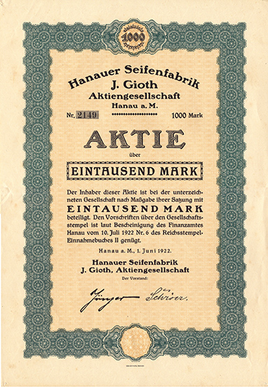 Share of Hanauer Seifenfabrik J. Gioth AG, 1000 Mark, 06/01/1922, Hanau, Germany